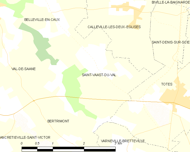 Map of French municipality Saint-Vaast-du-Val